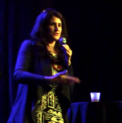 Did you ever think we'd figure out the color of a dinosaur? How do we figure out the color of extinct animals? Breakthroughs in the last eight years have led to a whole new way of looking at dinosaurs. Julia Clarke was then an Associate Professor of Paleontology at the University of Texas at Austin.